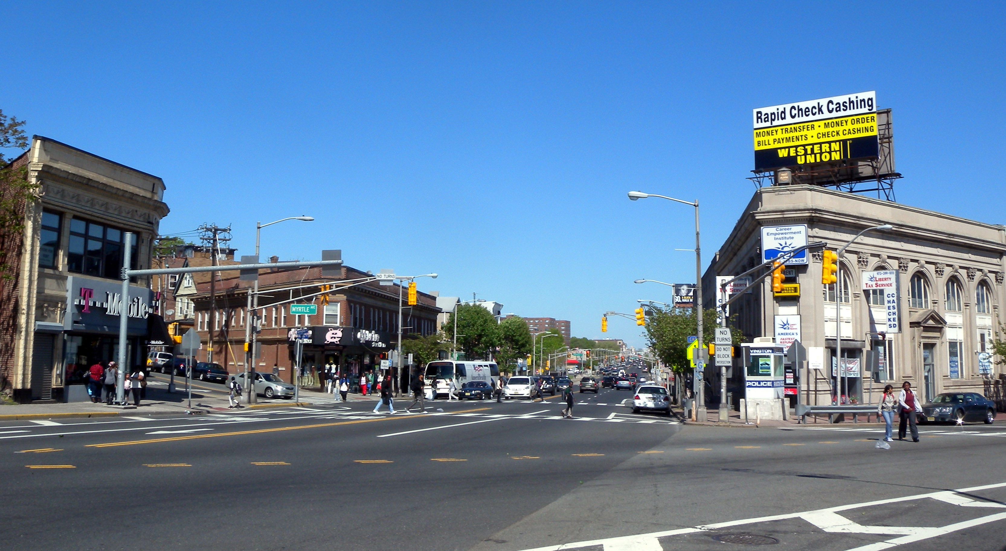 Looking east along Springfield Avenue in the middle of town on a sunny midday.